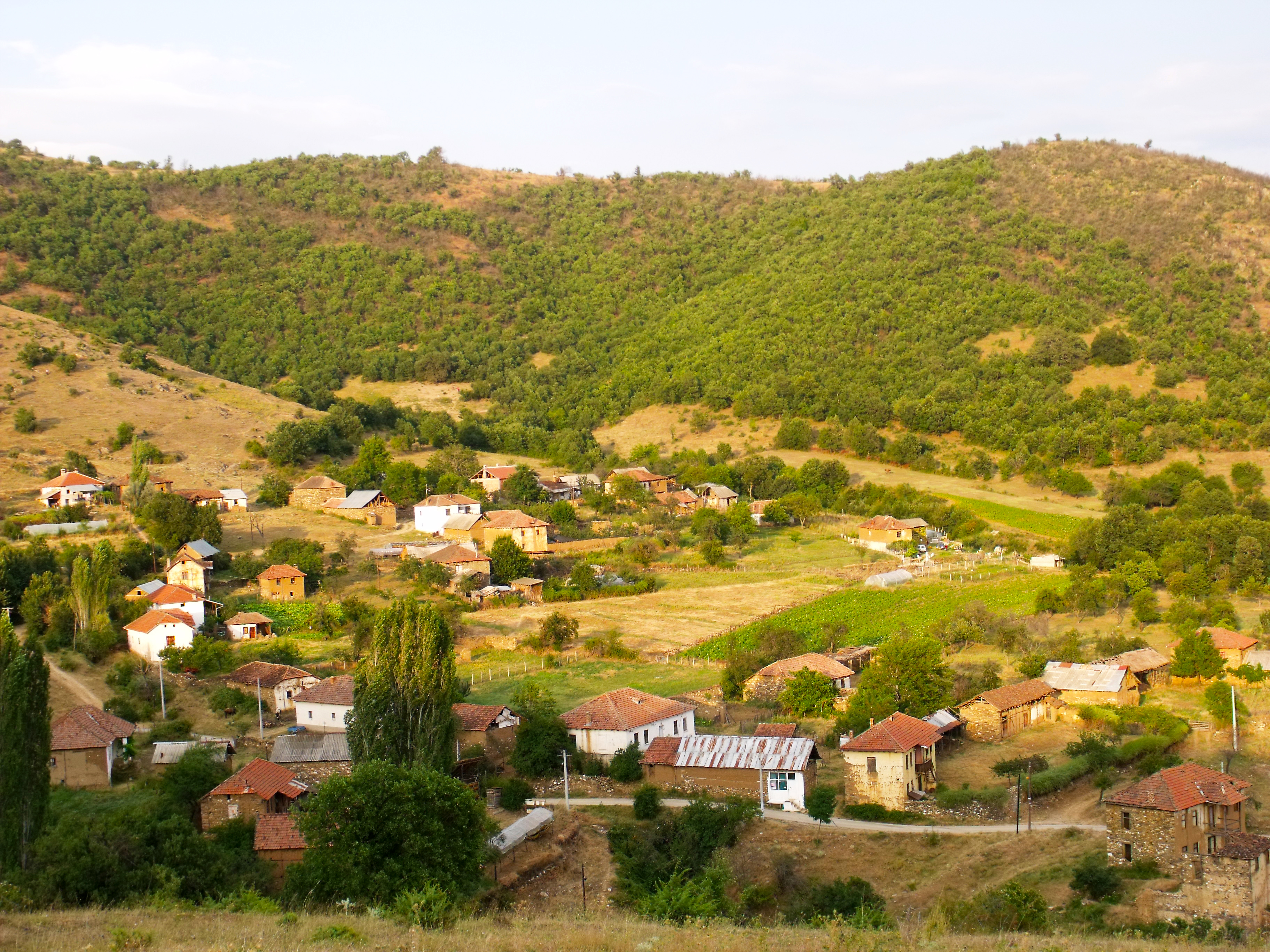 Village of Koshino - The northern part